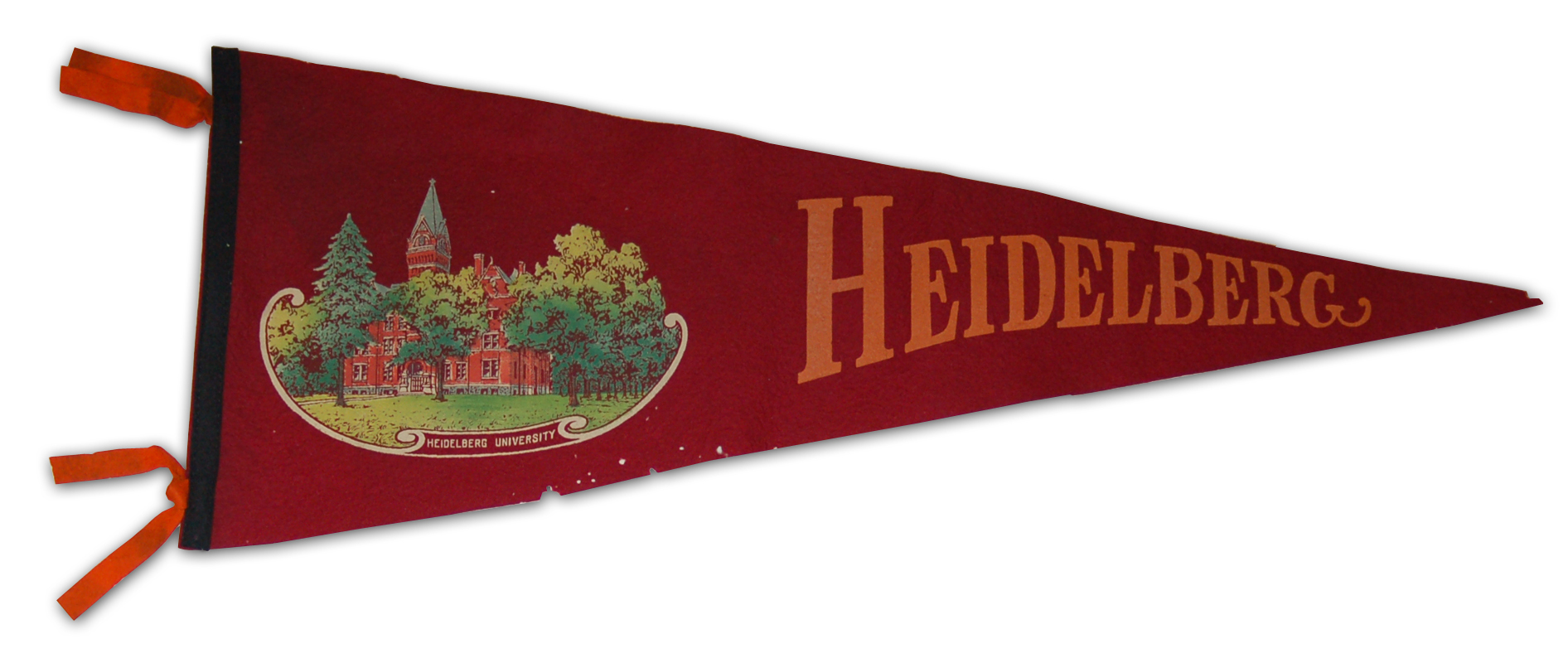 1920s felt silk screened souvenir pennant of Heidelberg University